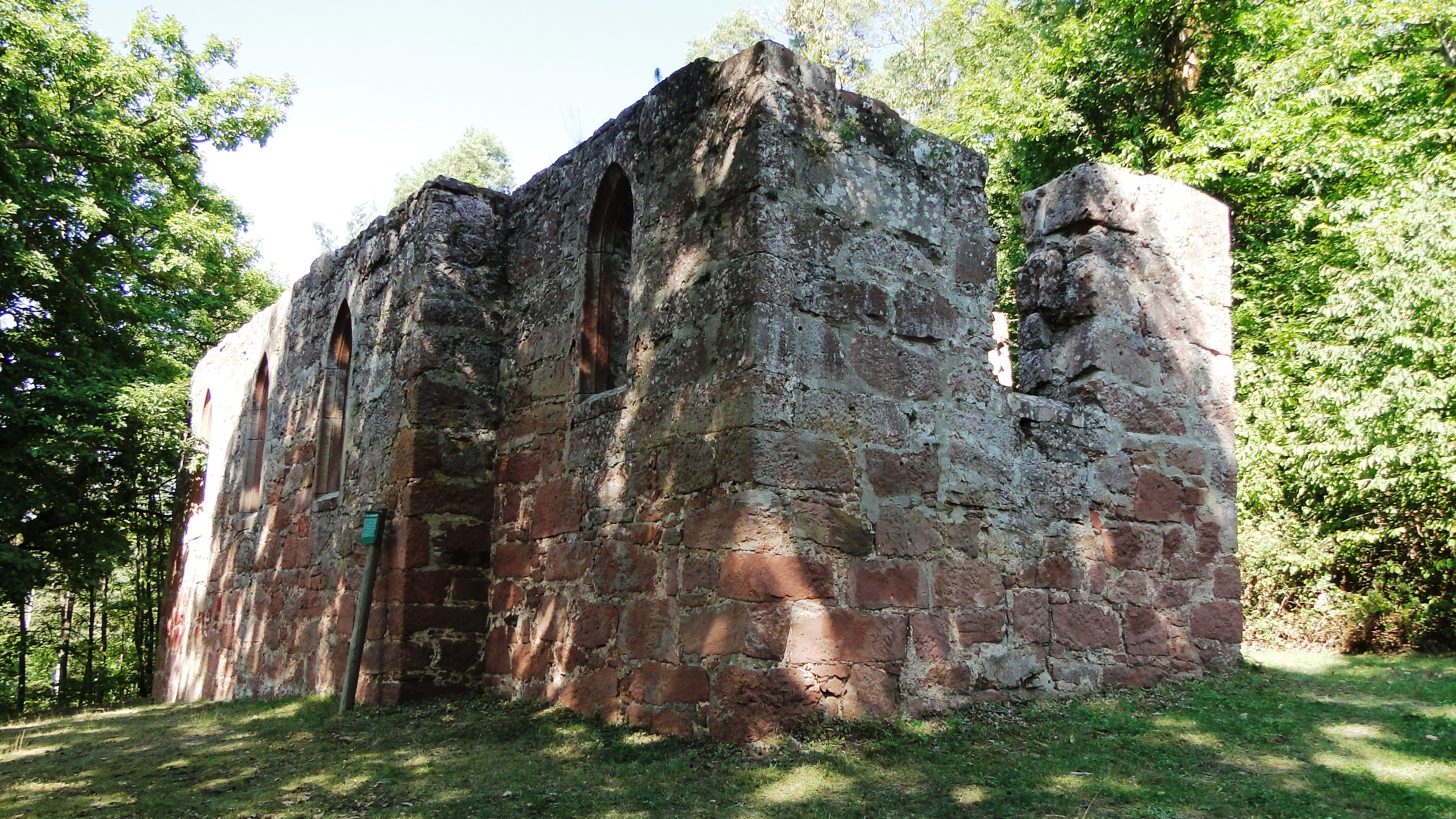 ruin of the 17th-century Centgrafenkapelle above Bürgstadt, Germany